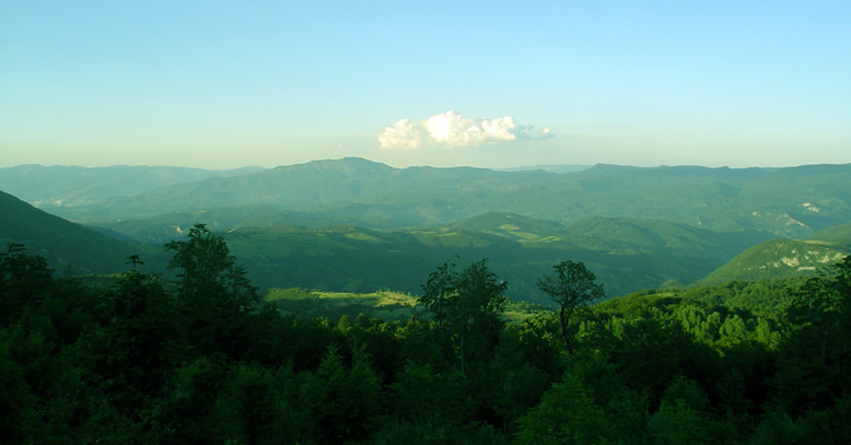 Bjela?nica mountain in the summer